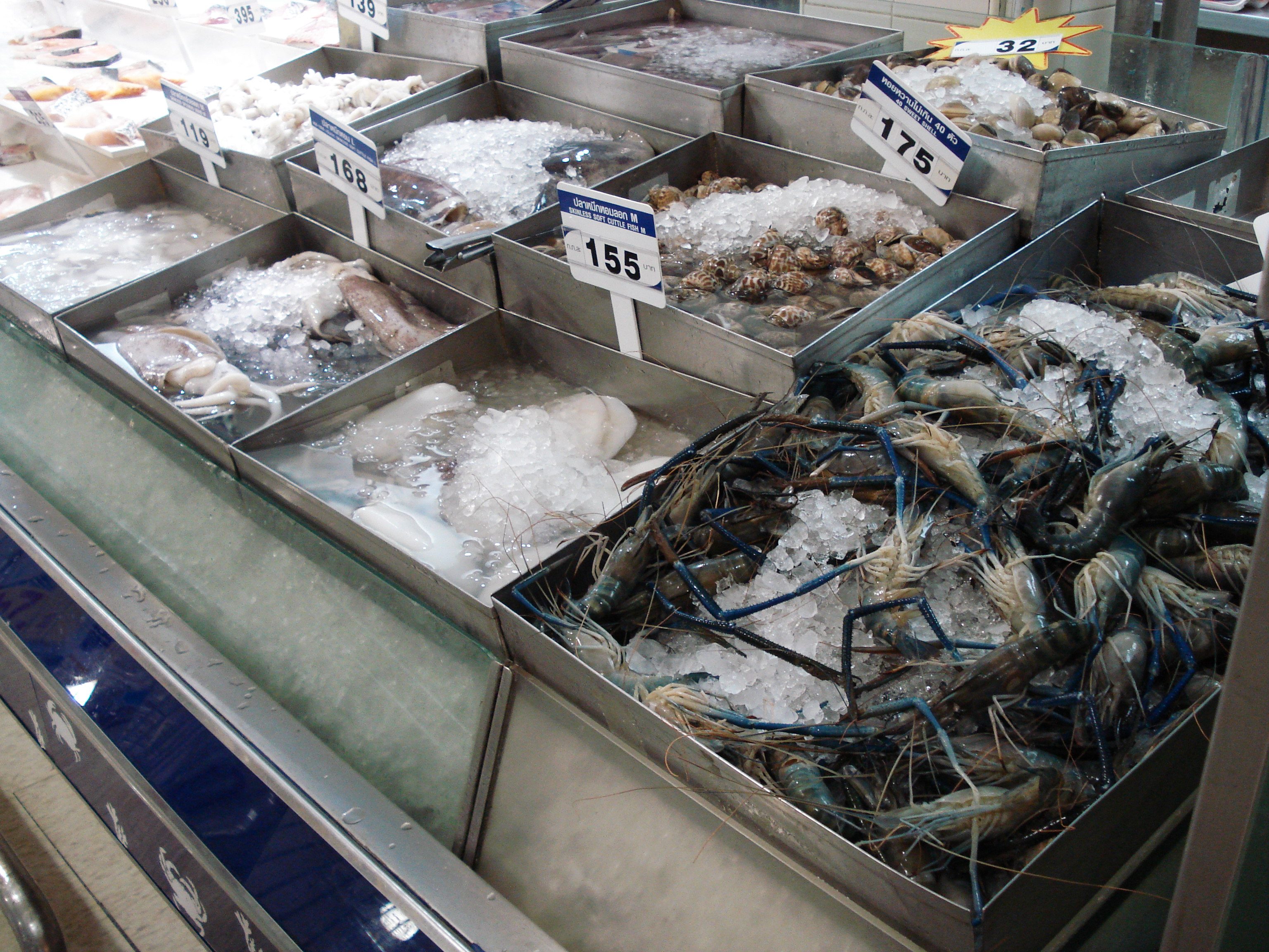 fish, packed in ice, supermarket Tesco-Lotus, Udonthani, Thailand